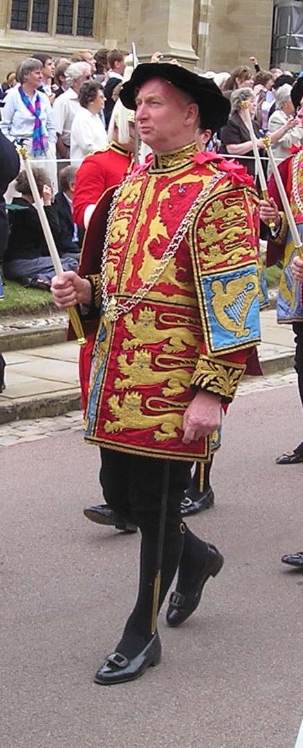 John Robinson, Maltravers Herald Extraordinary, in procession to St George's Chapel, Windsor Castle for the annual service of the Order of the Garter.